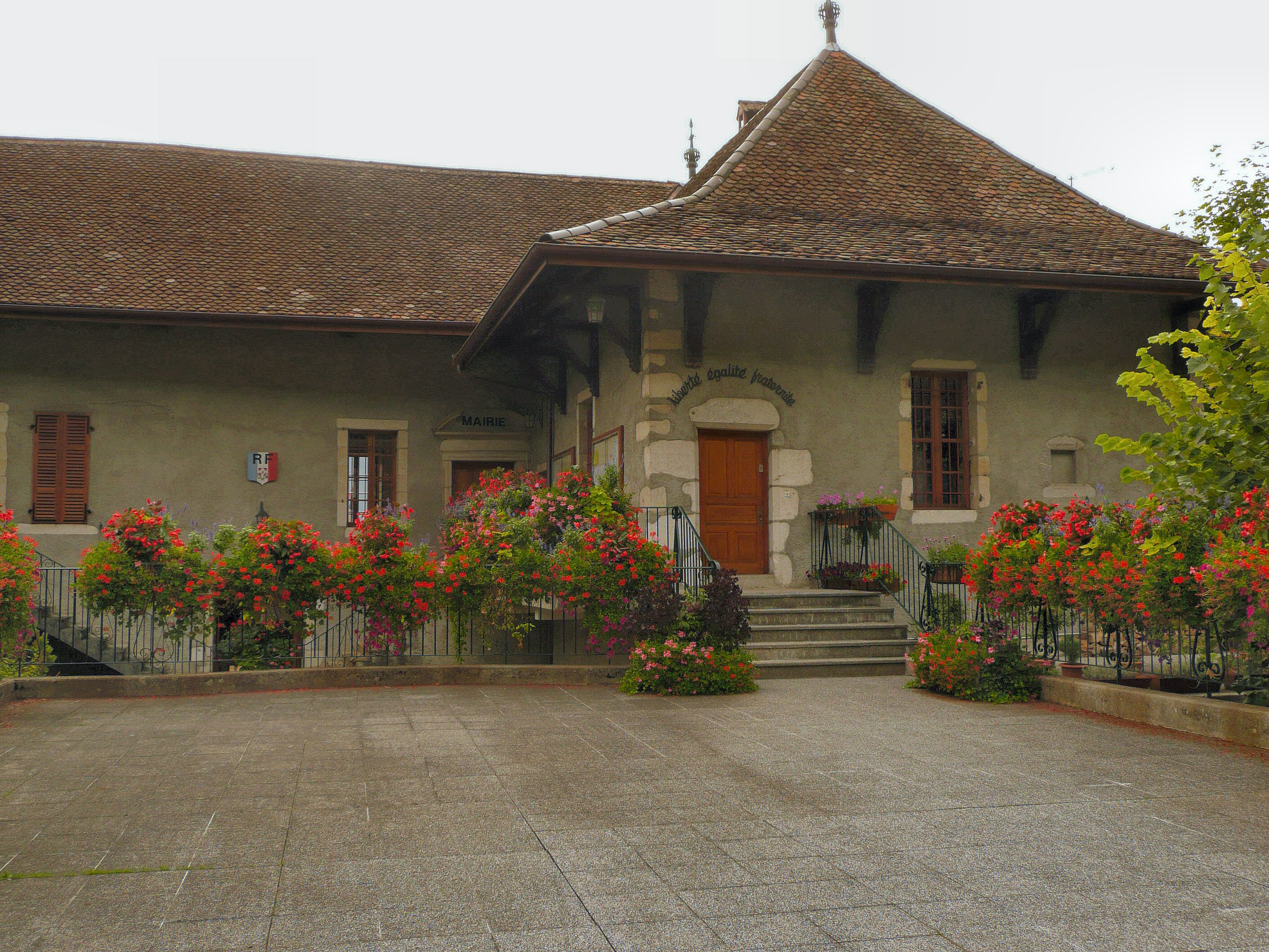 Talloires Town hall